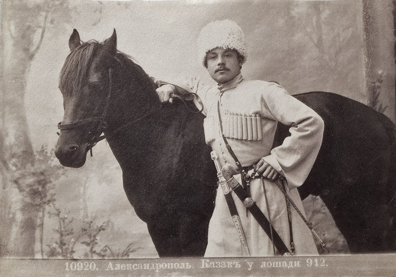 Cossack with horse in Alexandropol